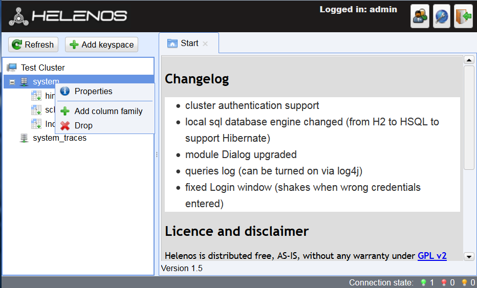 Helenos graphical interface for Apache Cassandra